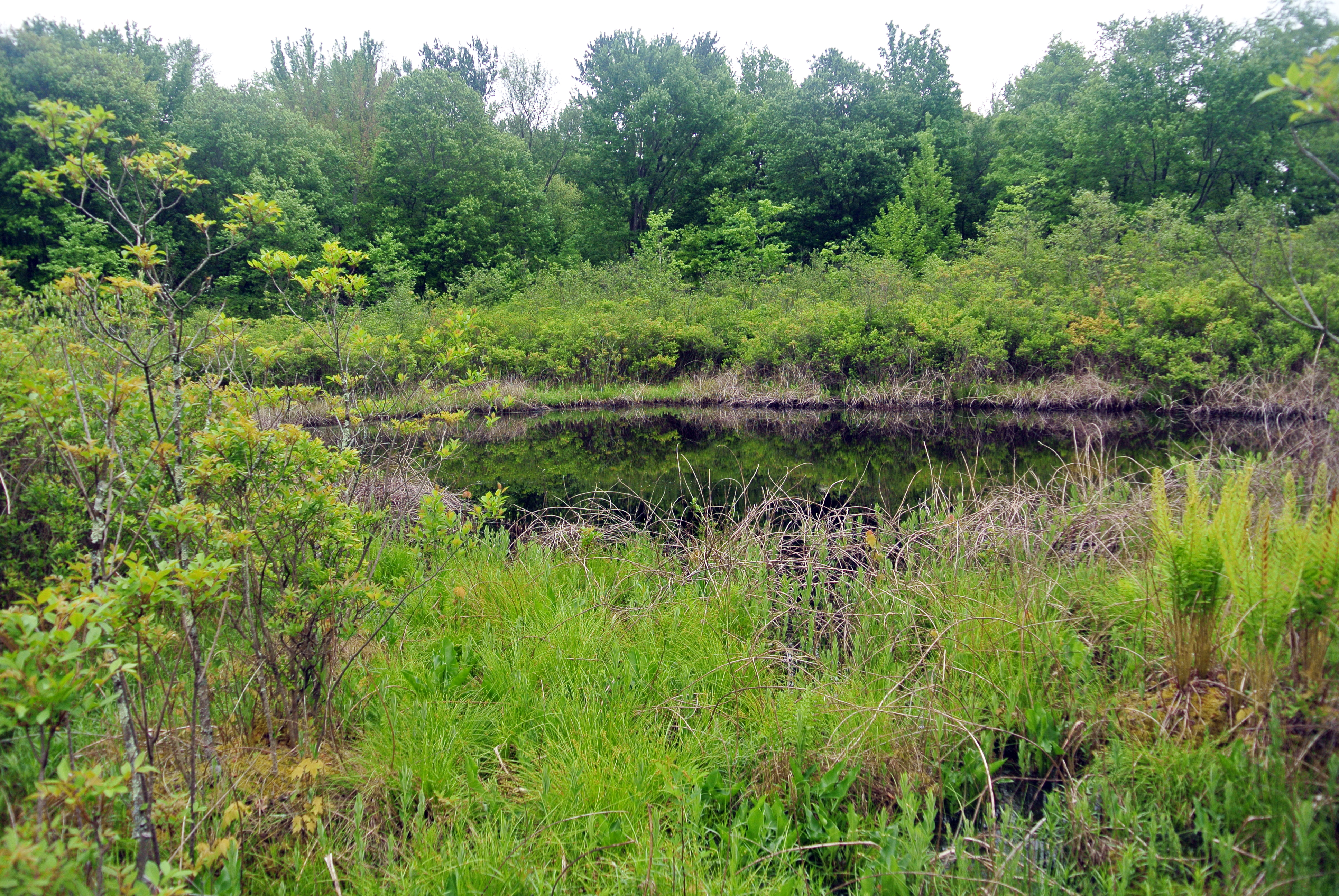 Brown's Lake Bog, Ohio, in late May.